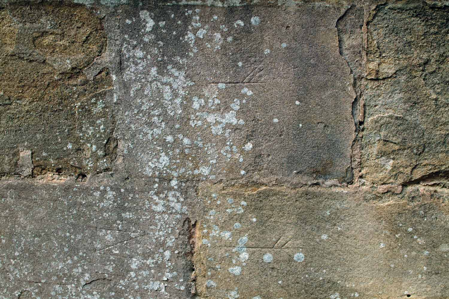 These Stonemasonry marks were created by the Stone Masons to identify their work. This helped in payment (they were paid by the number of blocks laid) and Quality Assurance. This photograph shows three different marks, which can be seen in the Chapter House of Fountains Abbey. They are on the left hand wall as you walk in. A quality Stone Mason (at the time of creating Fountains Abbey (1200s) would be able to create around four (4)! blocks a day. They would carve the blocks during the Winter and lay them during the Summer. Adamjennison111 21:33, 29 August 2006 (UTC)